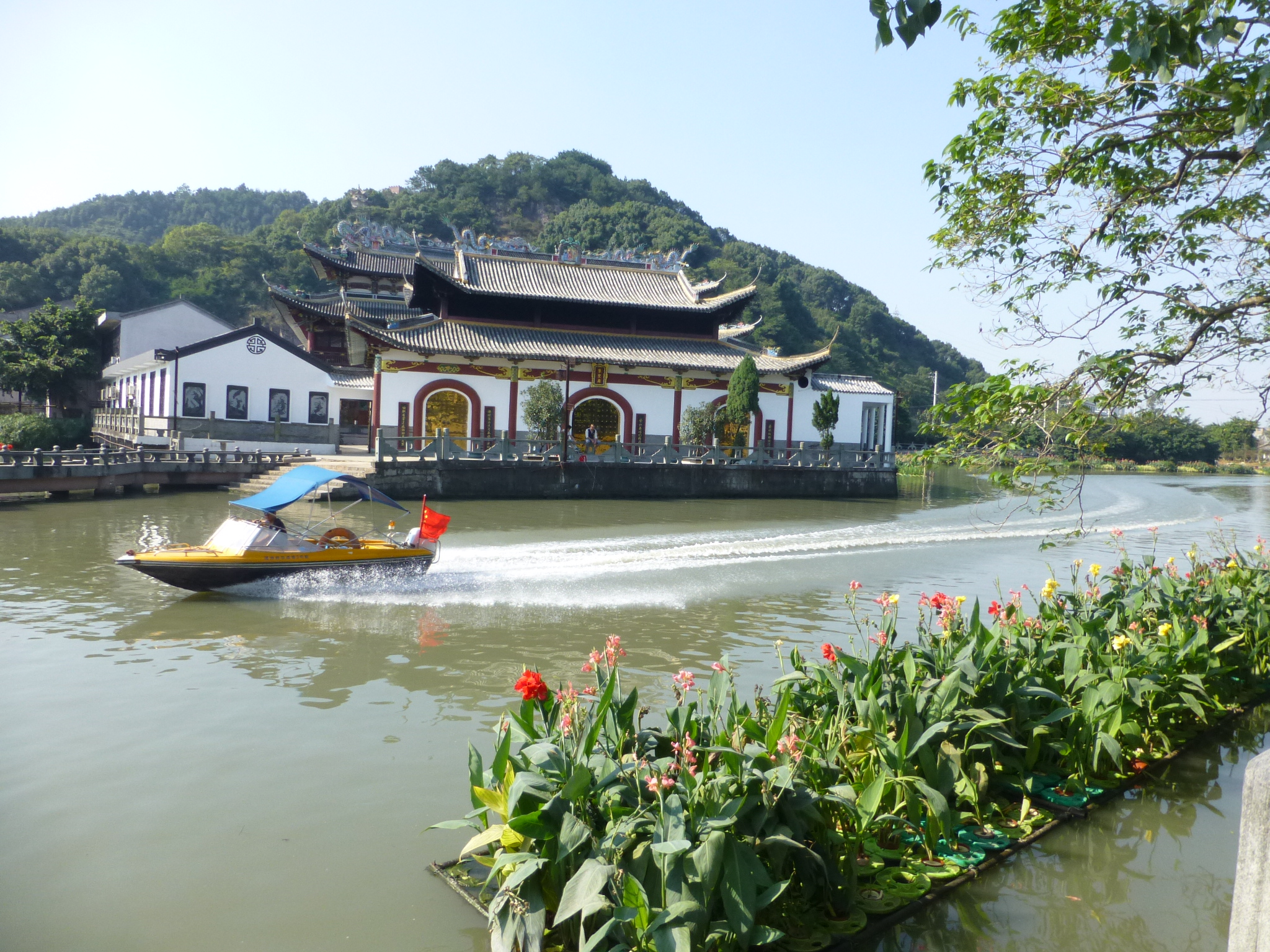 Canal view in Nanbaixiang Subdistrict, in Wenzhou's southern suburbs